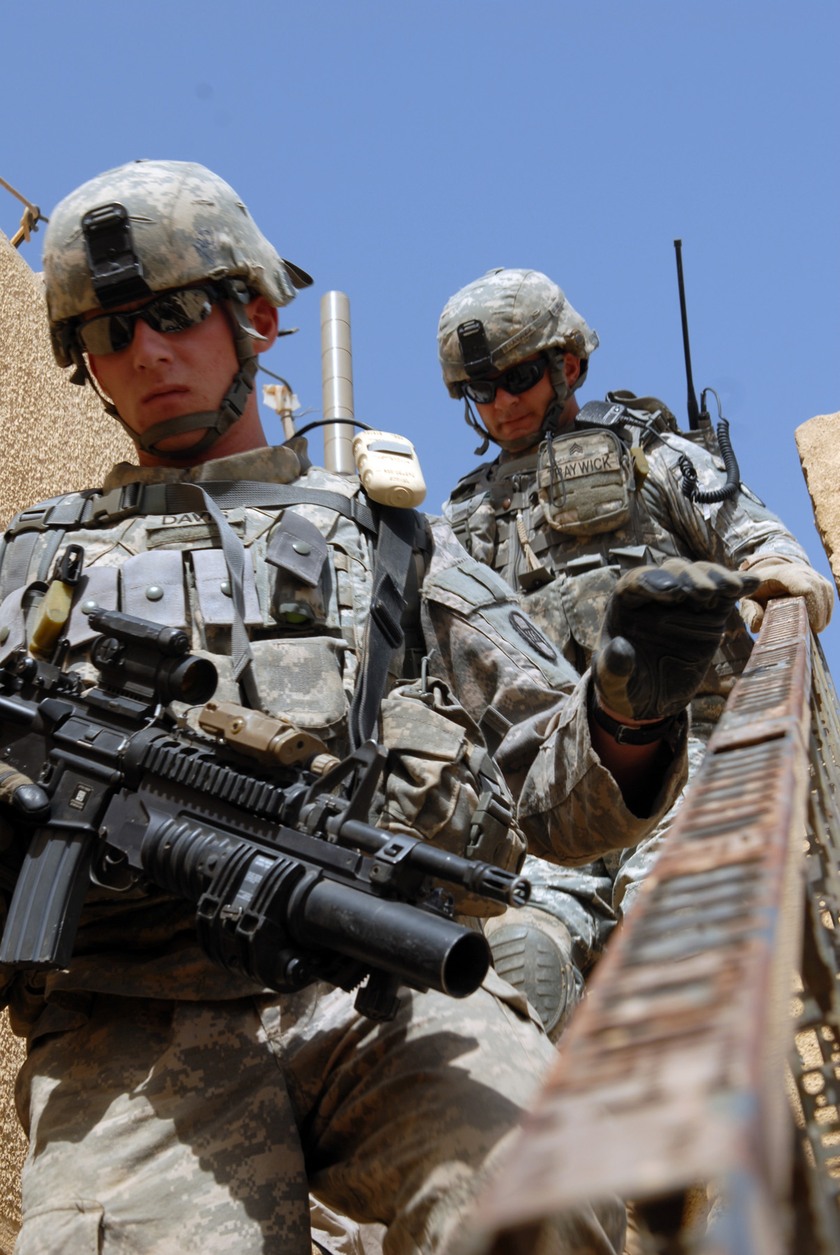 Spc. Justin Davis (left), an infantryman from Walkertown, N.C., and Sgt. Jason Traywick (right), a forward observer from Marshville, N.C., navigate a rusty metal staircase on an abandoned building during a joint patrol in Doura, here, June 10. Photo credit: Staff Sgt. Mark Burell. See more at